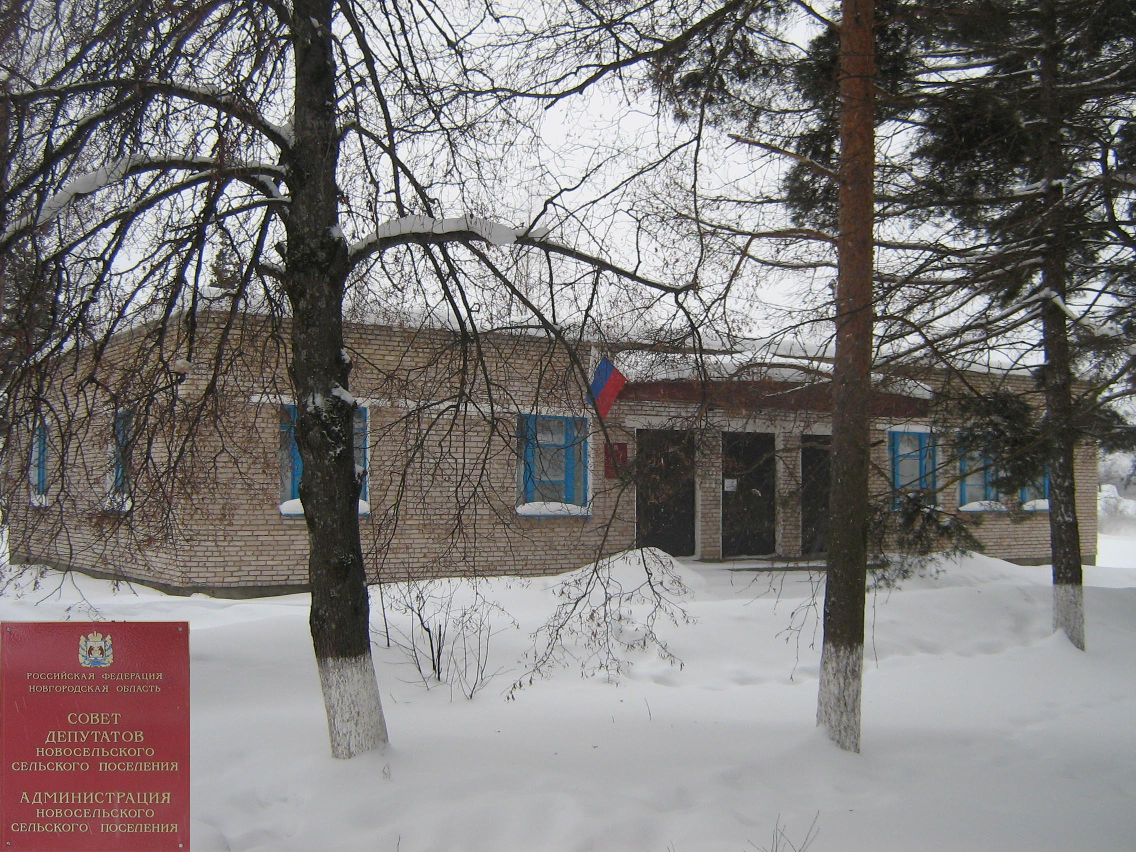 Novoselsky village, Starorusky district, Novgorod oblast, Russia